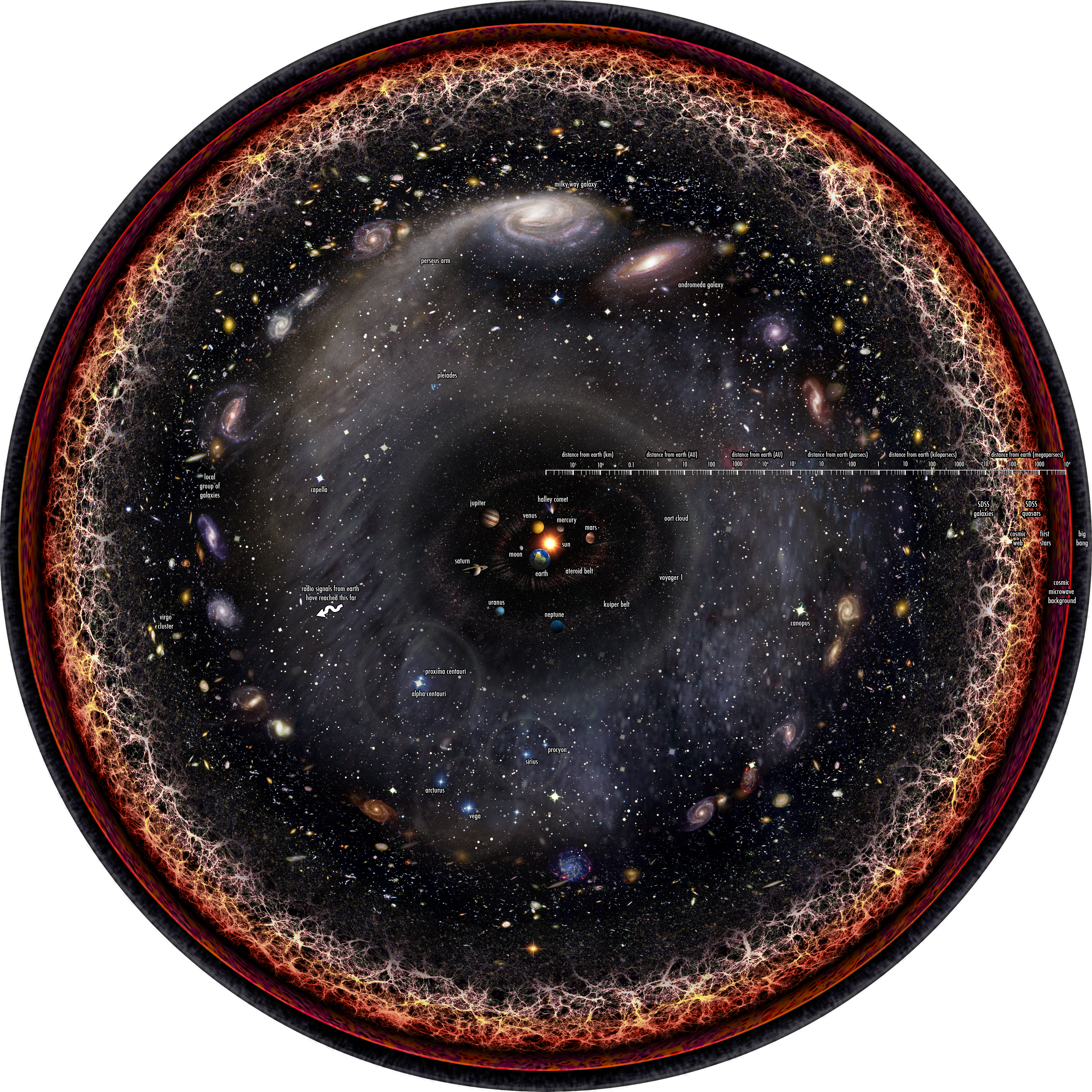 Artist's logarithmic scale conception of the local region of the universe with the Solar System at the center, inner and outer planets, Kuiper belt, Oort cloud, Alpha Centauri, Perseus Arm, Milky Way galaxy, Andromeda galaxy, nearby galaxies.